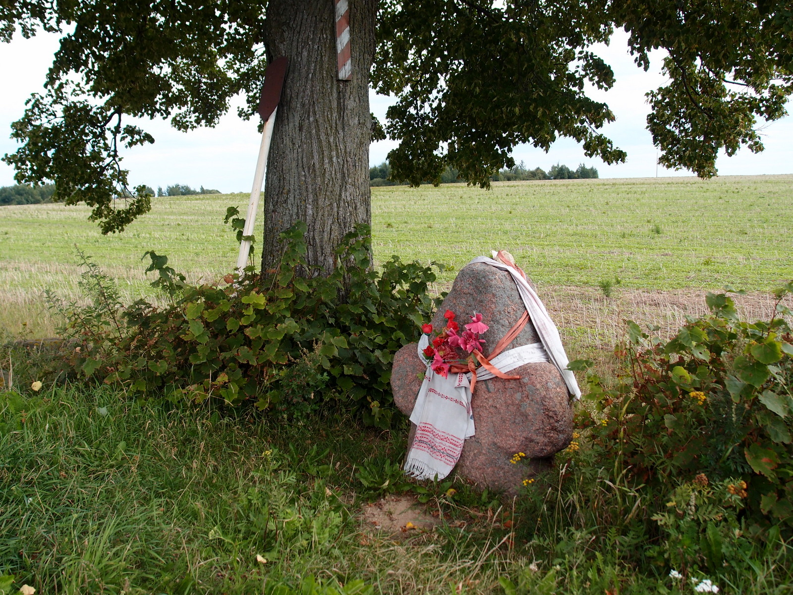 Roadside cross near Jachimoŭščyna